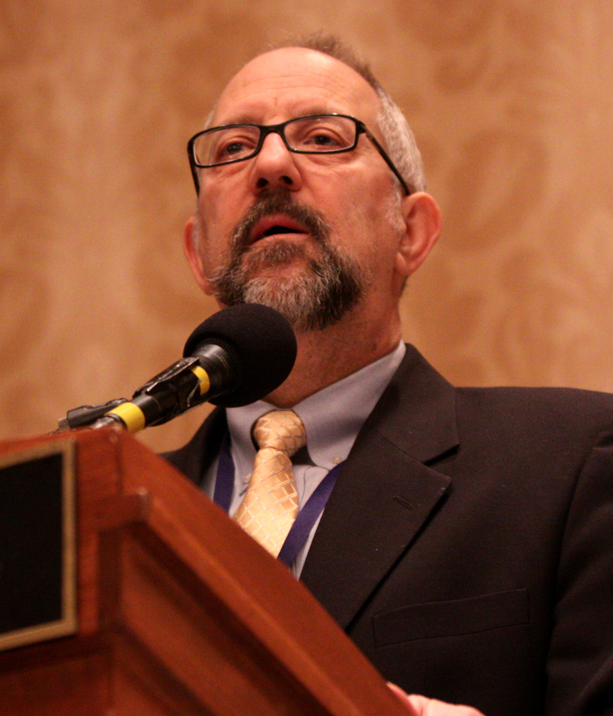 Joseph Salerno speaking at an event in Washington, D.C.